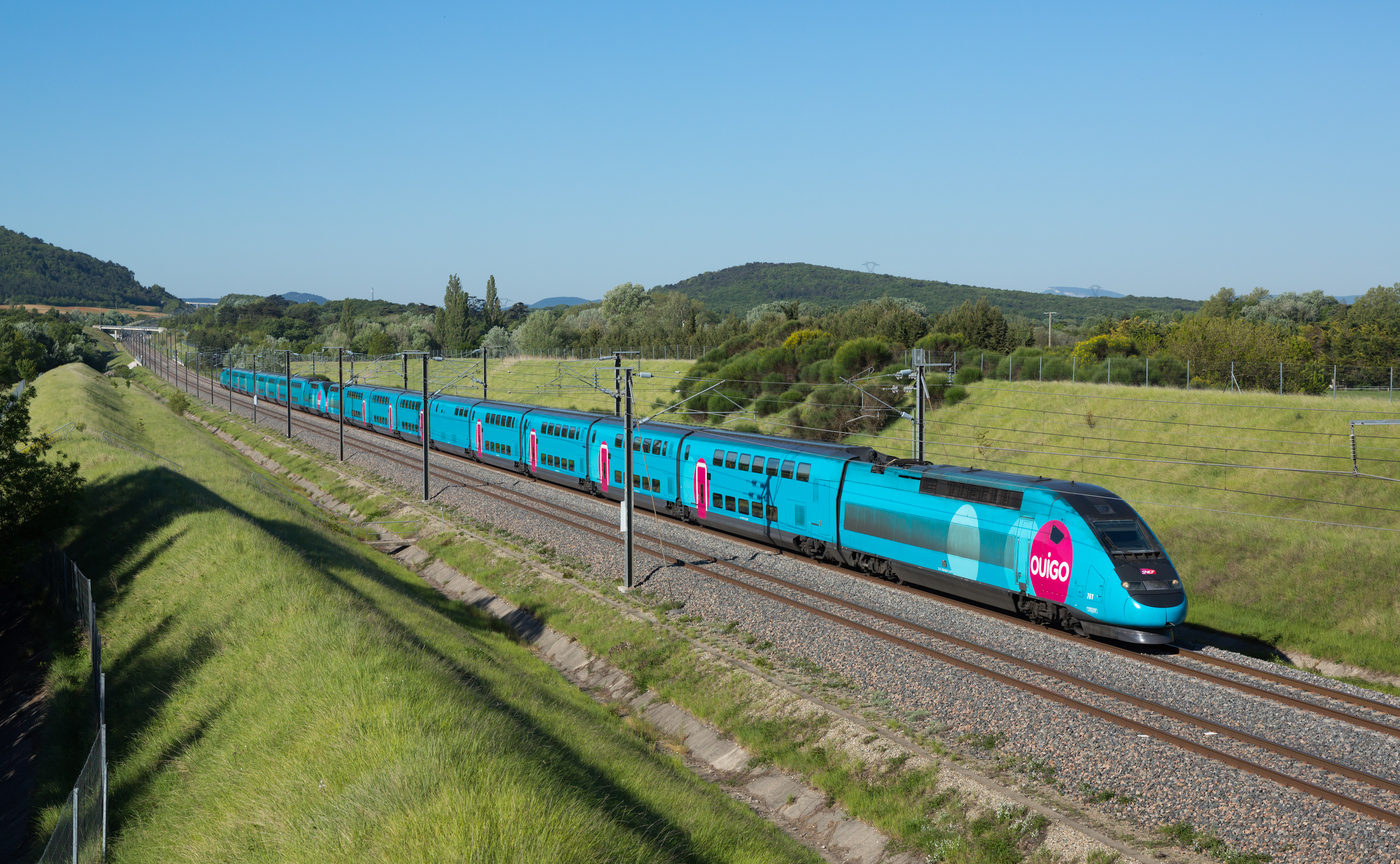 TGV Dasye 761 "OUIGO" operated by Société National des Chemins de fer Français and a sister unit are on their way from Marseille to Paris near Montboucher-sur-Jabron, France.